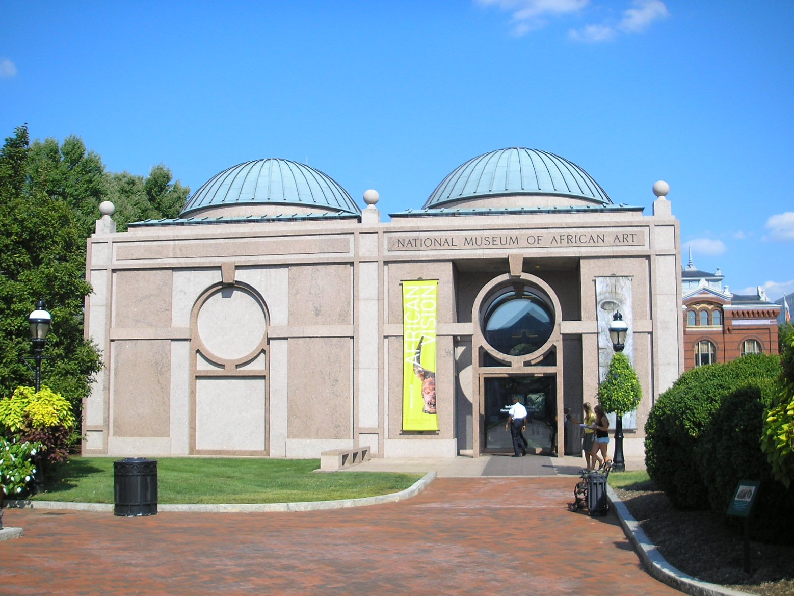 The National Museum of African Art in Washington, D.C..